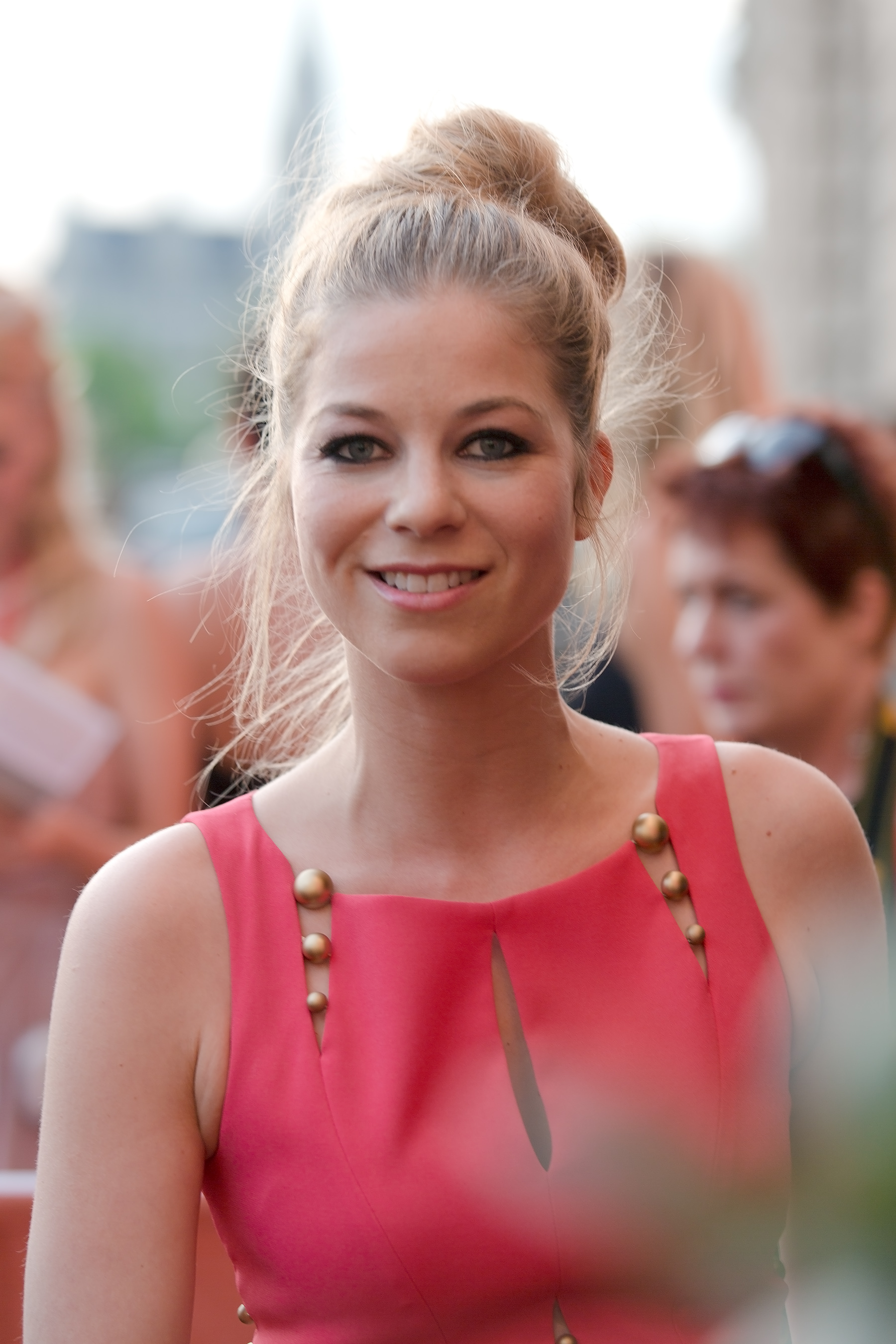 Hilde Dalik on the red carpet of the Romy TV awards at Hofburg Palace in Vienna, Austria.